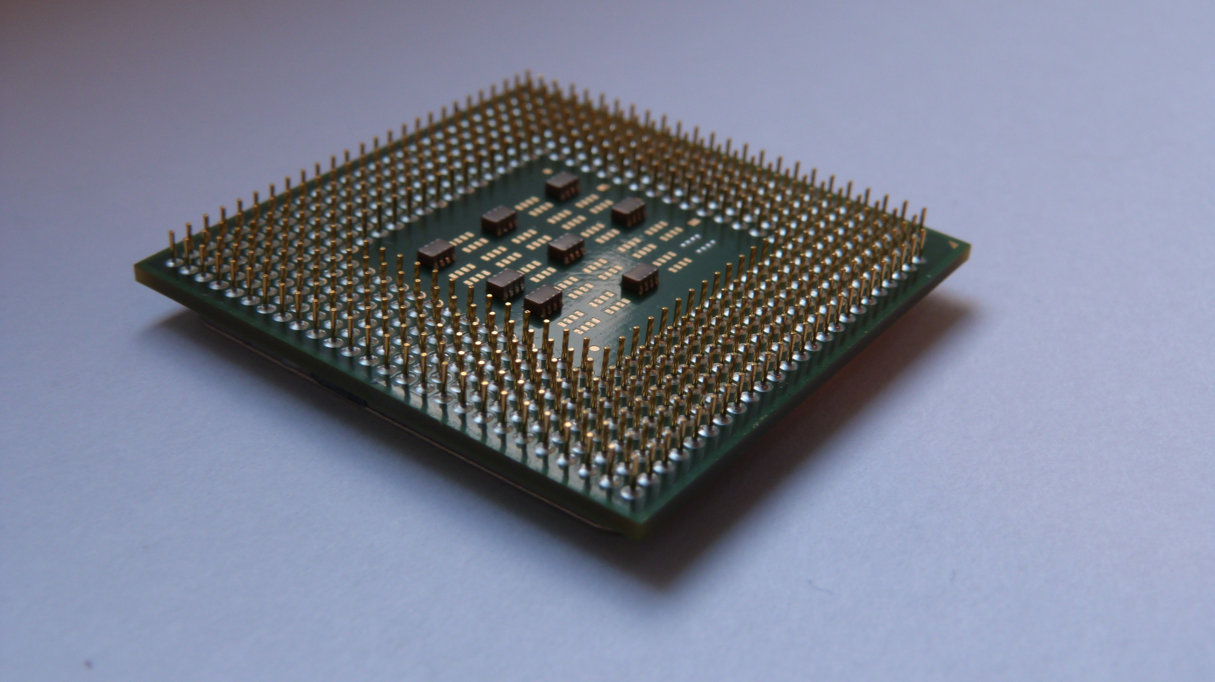 The underside of a 2001 Pentium 4, showing the pins used in a PGA socket.